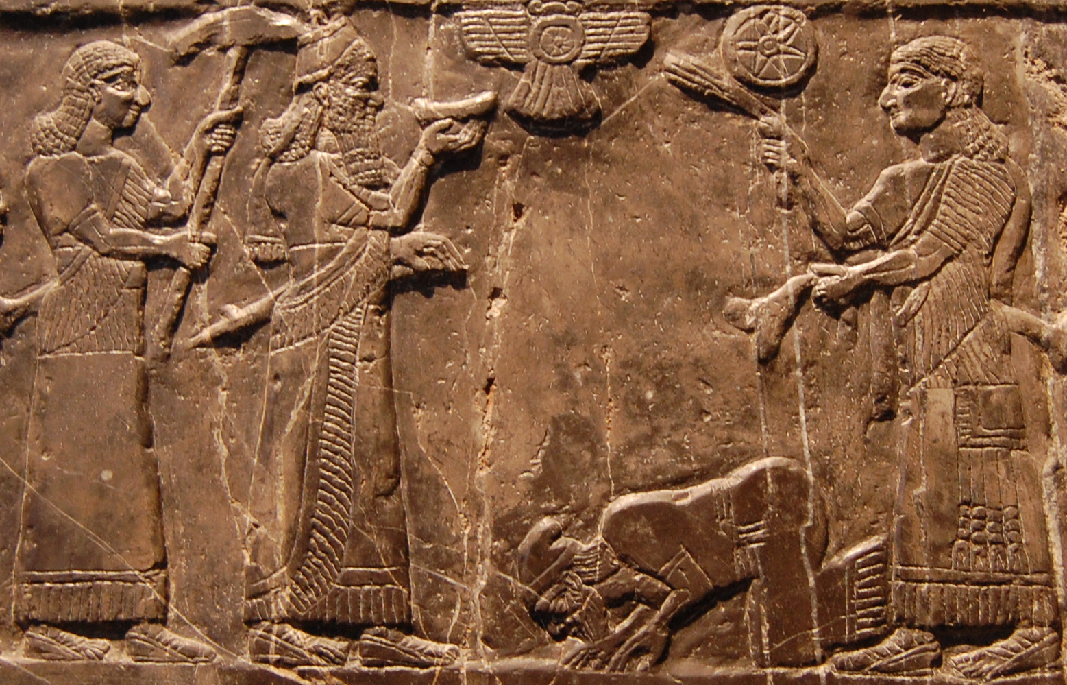 Depiction of Jehu King of Israel giving tribute to King Shalmaneser III of Assyria, on the Black Obelisk of Shalmaneser III from Nimrud (circa 827 BC) in the British Museum (London).